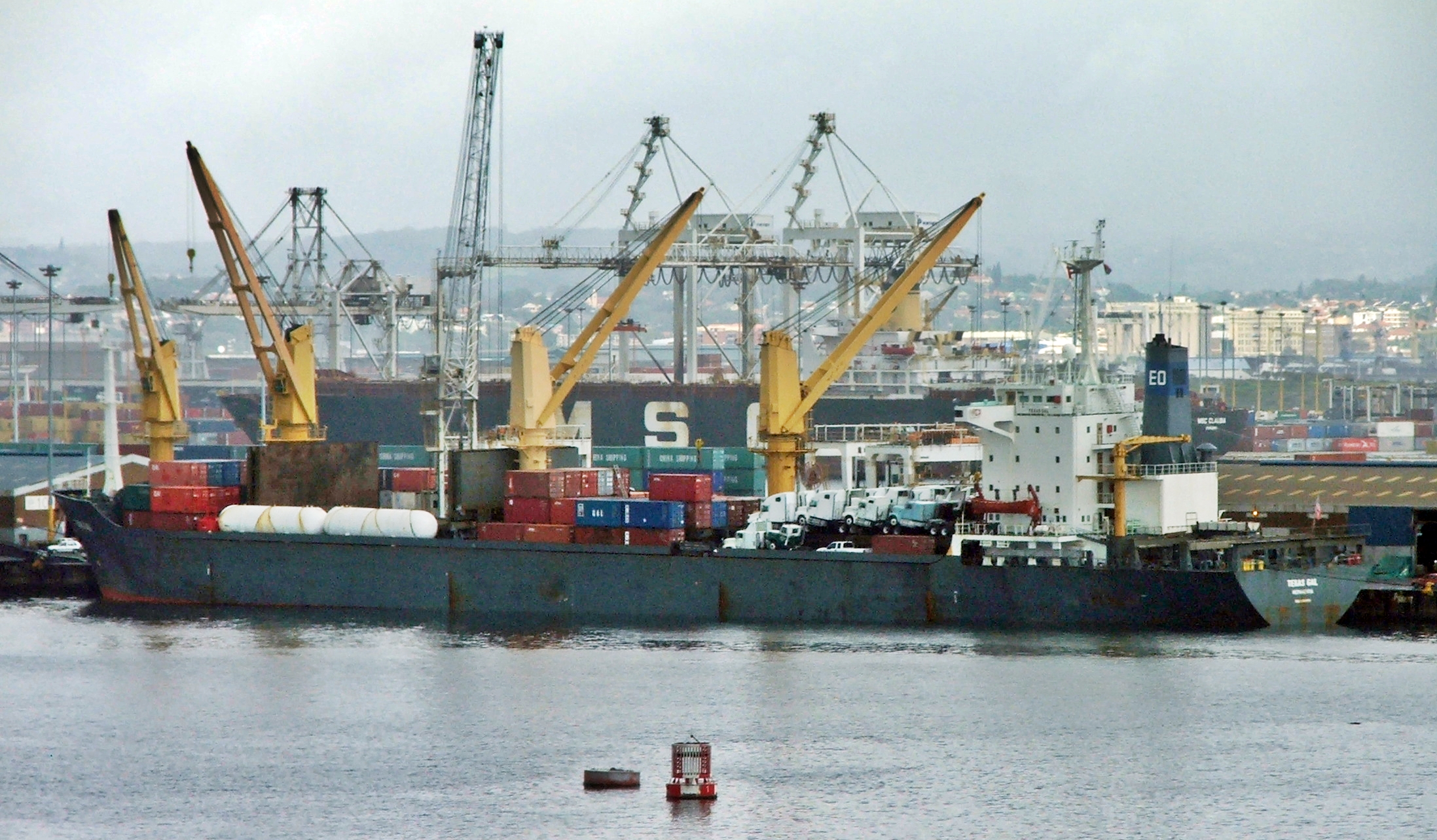 The geared multi purpose carrier 'Texas Gal', ex 'Eckert Oldendorff of Lübeck based shipping company Oldendorff Carriers. IMO 8300913